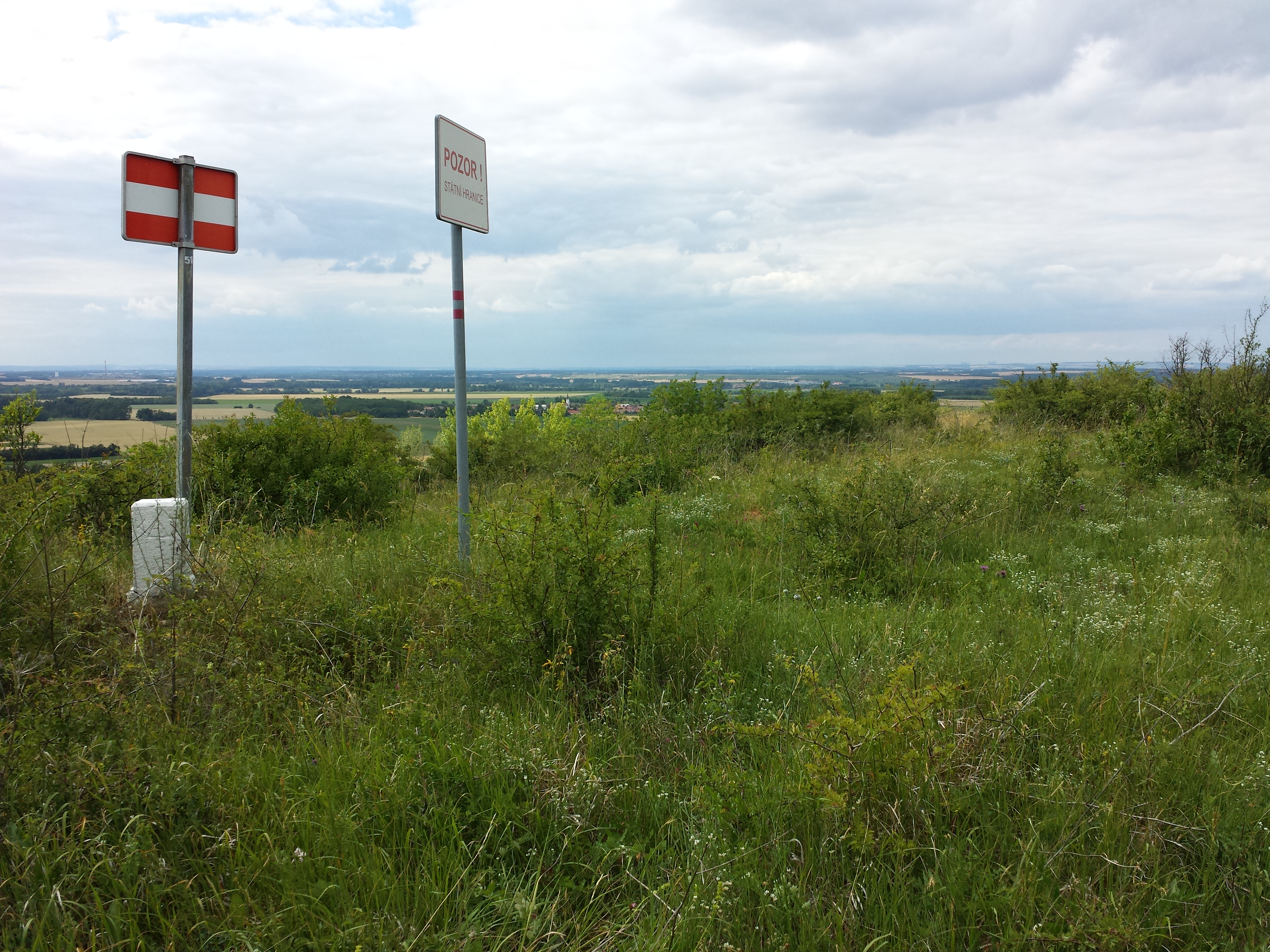 Heidberg near Wildendürnbach, district Mistelbach, Lower Austria - ca. 250 m a.s.l. Border Austria-Czech Republic This media shows the natural monument in Lower Austria with the ID MI-079.